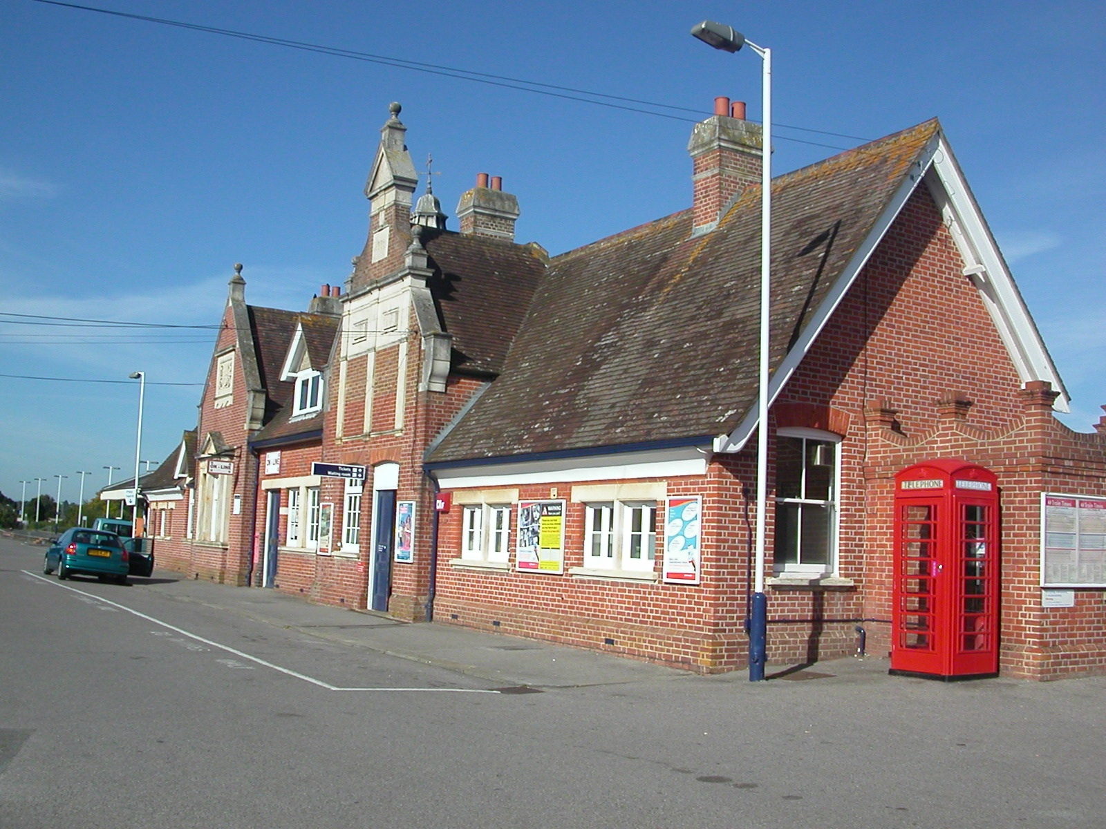 View of the main building at Wareham station